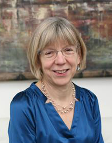 Portrait released in support of on-going improvement to Wikipedia articles, refer to